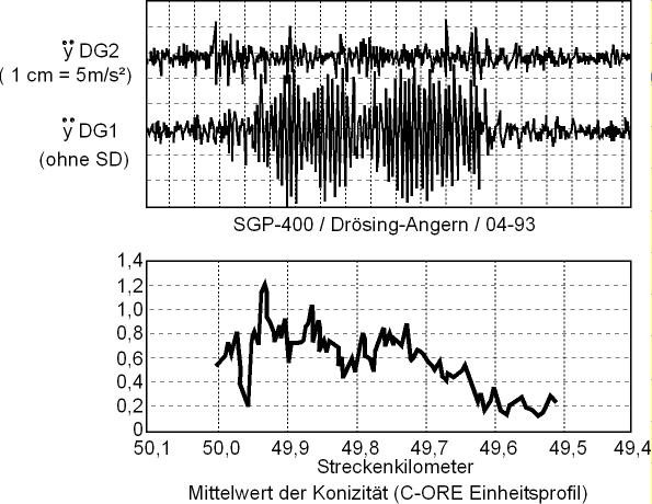 The figure shows the measured accelerations of an instable bogie caused by too high equivalent conicity